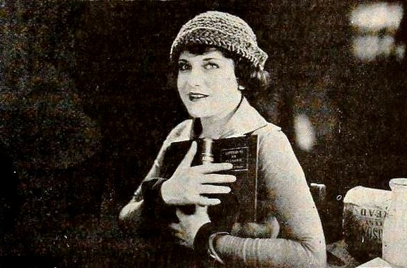 Still from the American comedy film The Microbe (1919) with Viola Dana, on page 17 of the October 1919 Film Fun.